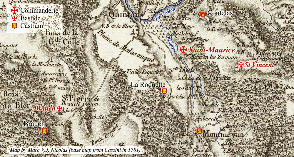 Map of the commandry of Saint-Maurice, Montmeyan, Var, France